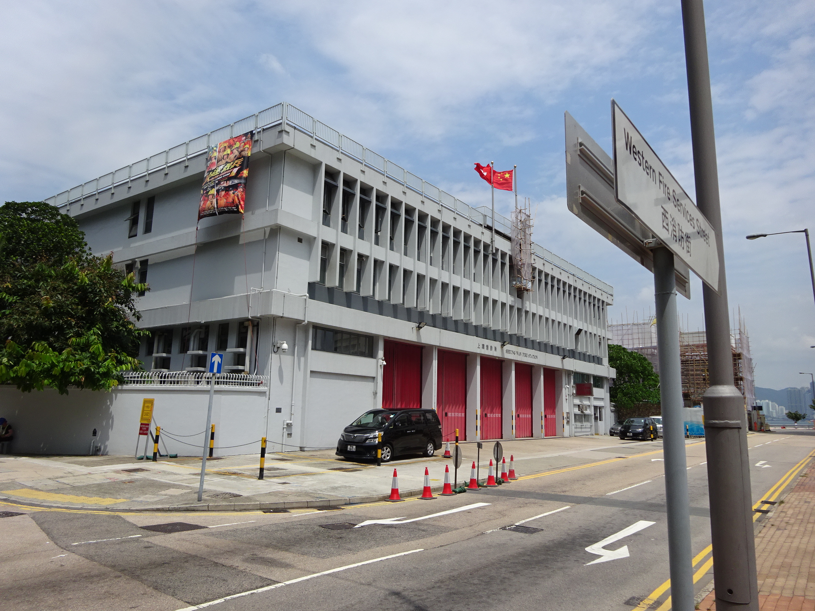 Blue sky n Western Fire Services Street, Connaught Road West, near Shun Tak Centre, Chung King Road, Sheung Wan, Hong Kong